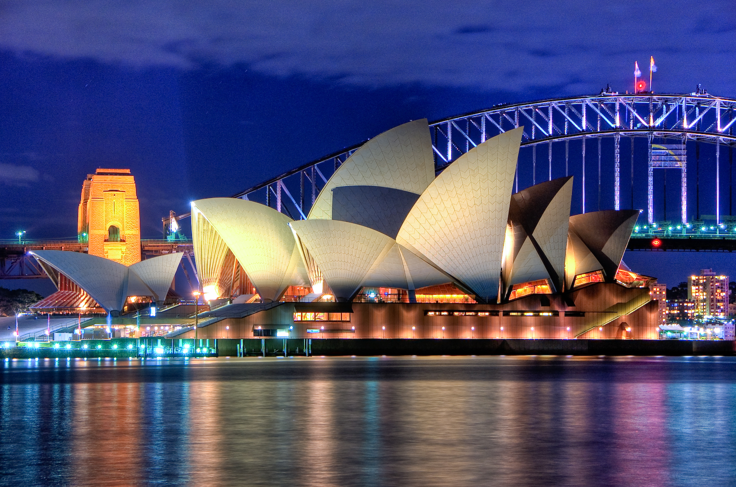 Sydney Opera House Close up HDR Sydney Australia This is composed from 5 exposure shots.